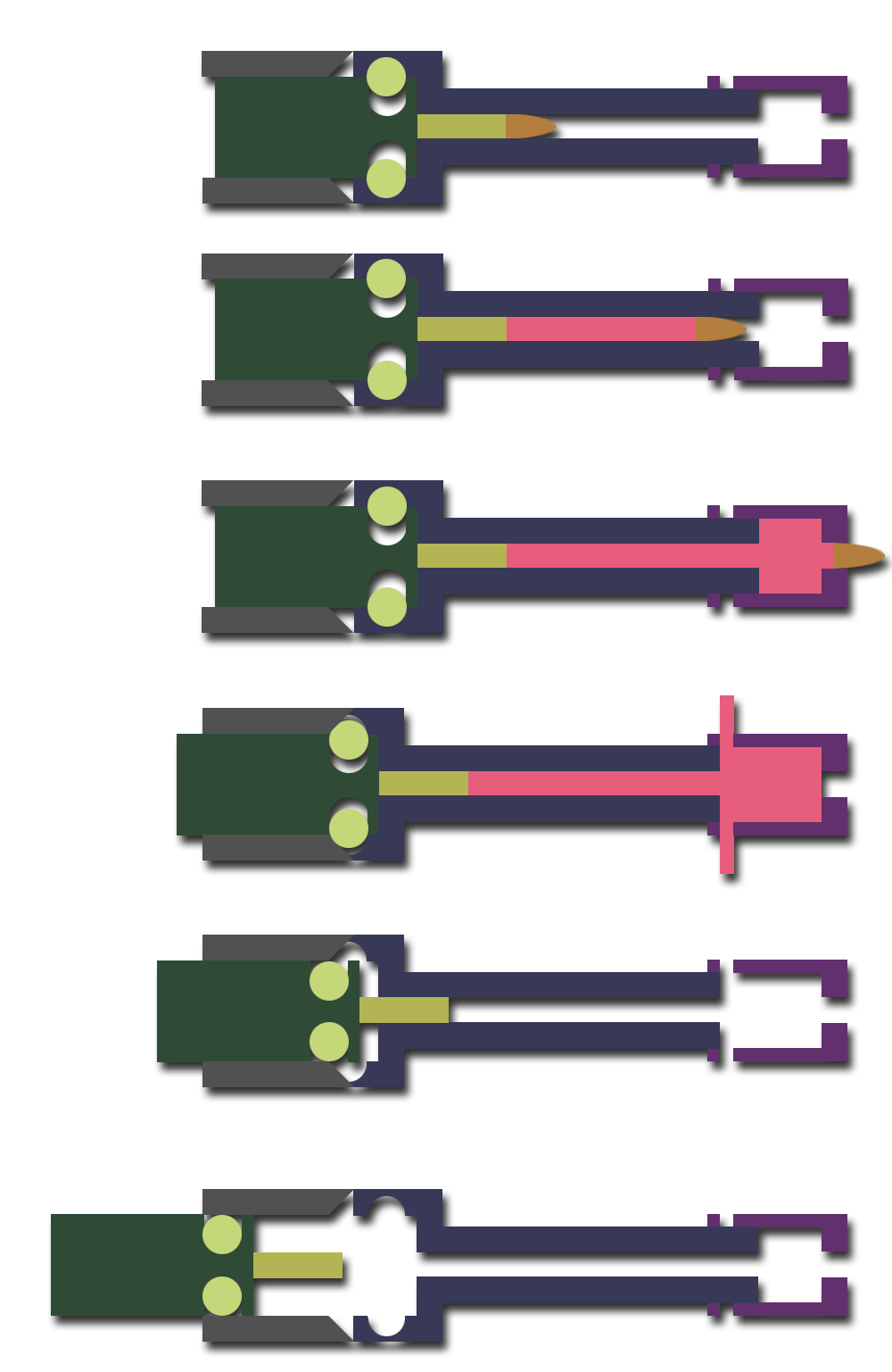 Cinematic, MG42 roller accelerated short recoil action